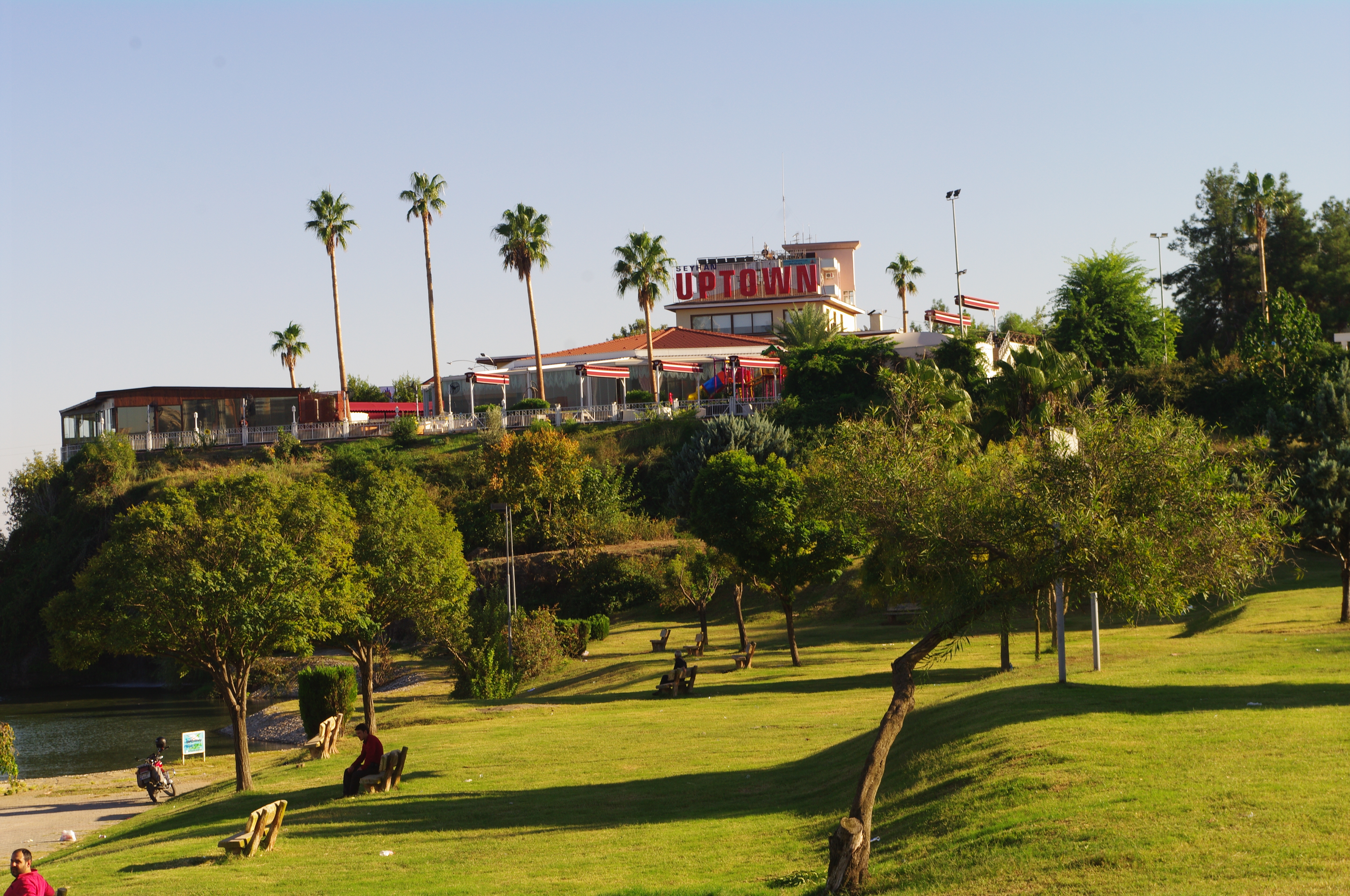 A view of Dilberler Sekisi Park in Yenibaraj Mah. in Seyhan, Adana - Turkey.